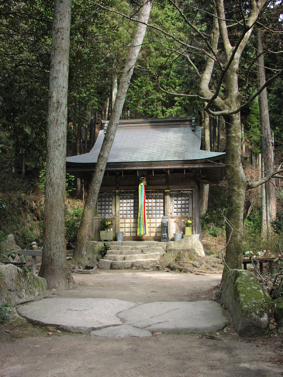 Small temple of Jizo in Fukasaka pass road